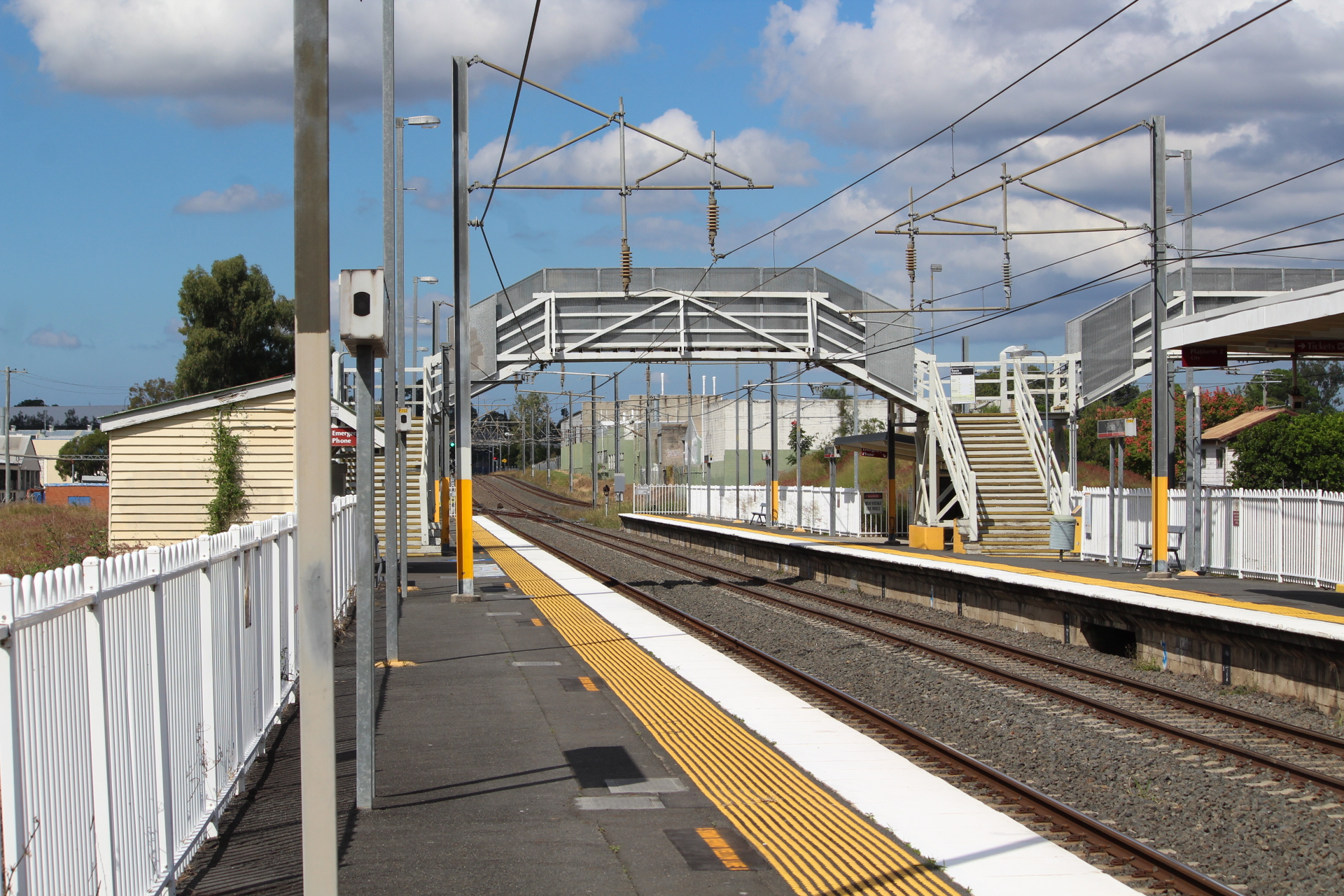 Rocklea station, Brisbane